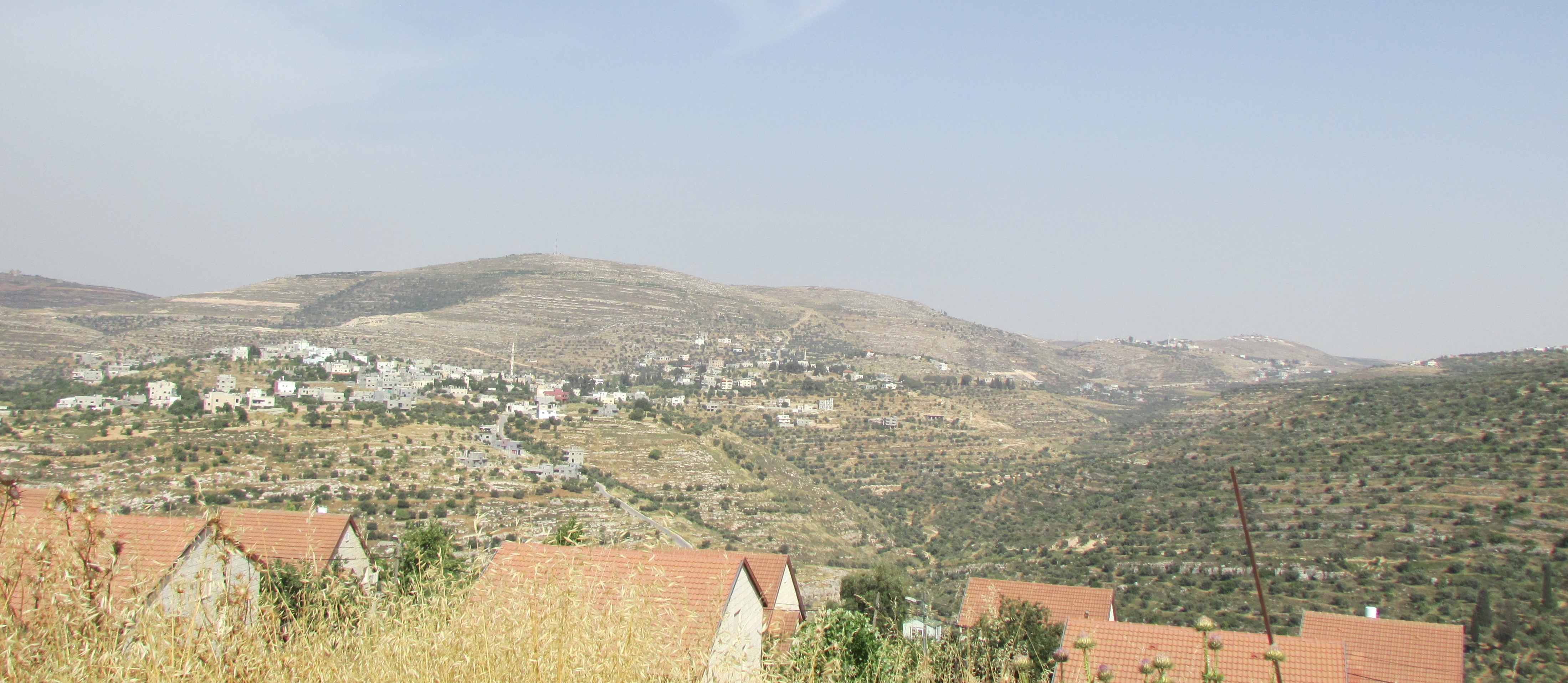 Talfit from Palgei Mayim in the westץ The roff tops are Palgei Mayim in Eli. In the far right we can see Ahiya and Jalud.